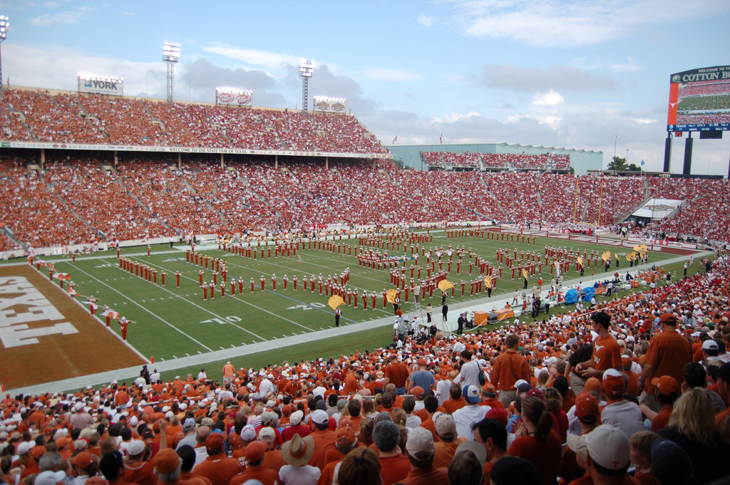 The Longhorn Band performs Script Texas at the 2007 Red River Shootout